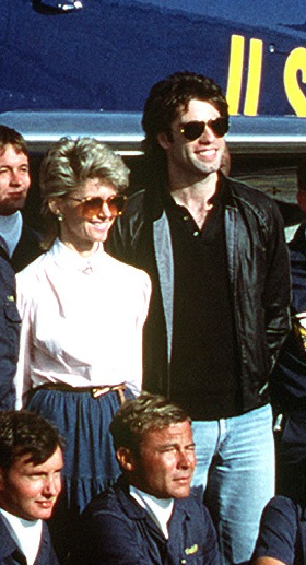 ID: DNST8301252 Service Depicted: John Travolta and Olivia Newton-John, cropped from an image of them posing with the Navy's Blue Angels flight demonstration team in front of an A-4F Skyhawk aircraft parked on the apron. Location: SALINAS, CALIFORNIA (CA) UNITED STATES OF AMERICA (USA) Camera Operator: PH3 CURT FARGO Date Shot: 3 Oct 1982